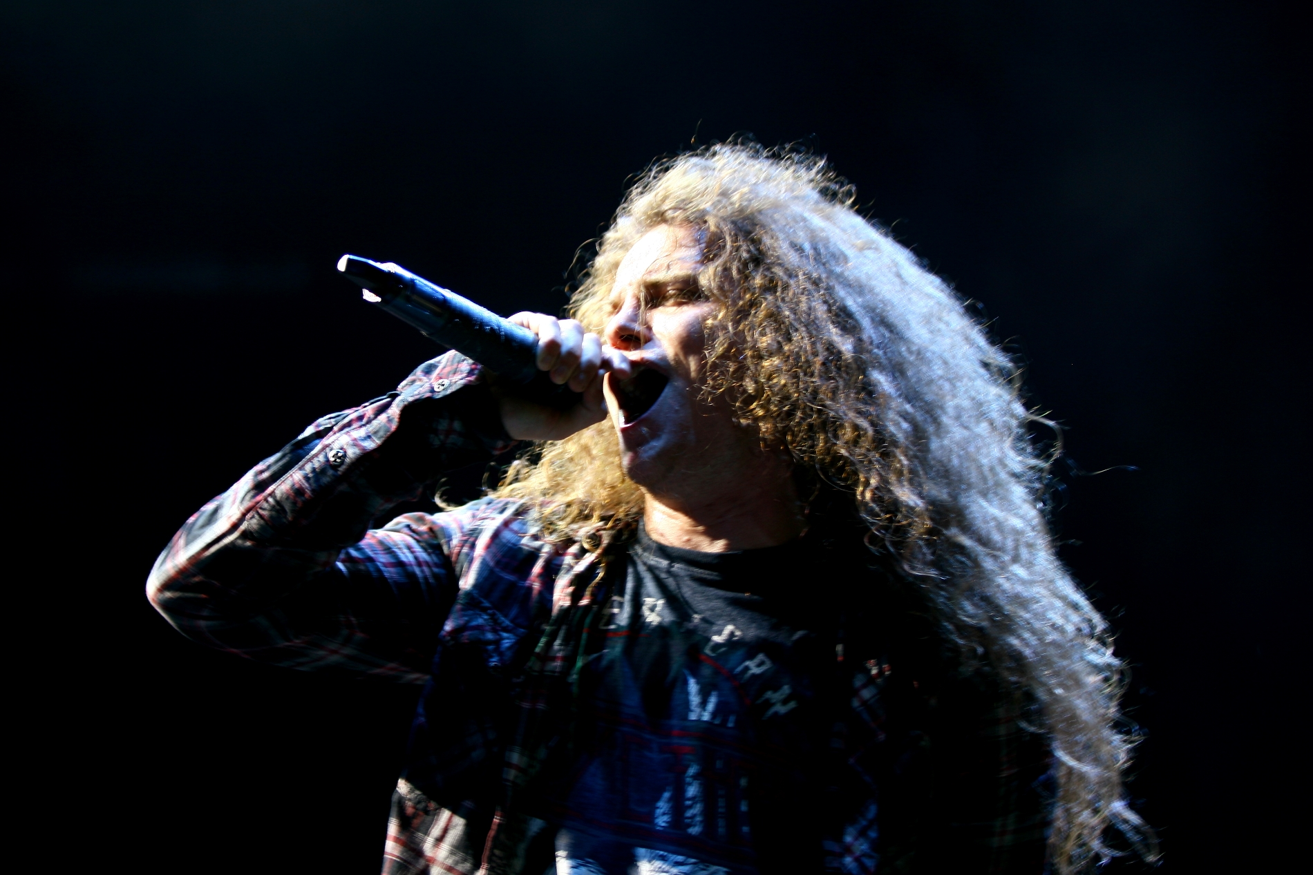 Levi Benton, singer of Miss May I, on the Clubstage of Rock im Park Festival 2014. Festivalsommer This photo was created with the support of donations to Wikimedia Deutschland in the context of the CPB project "Festival Summer".